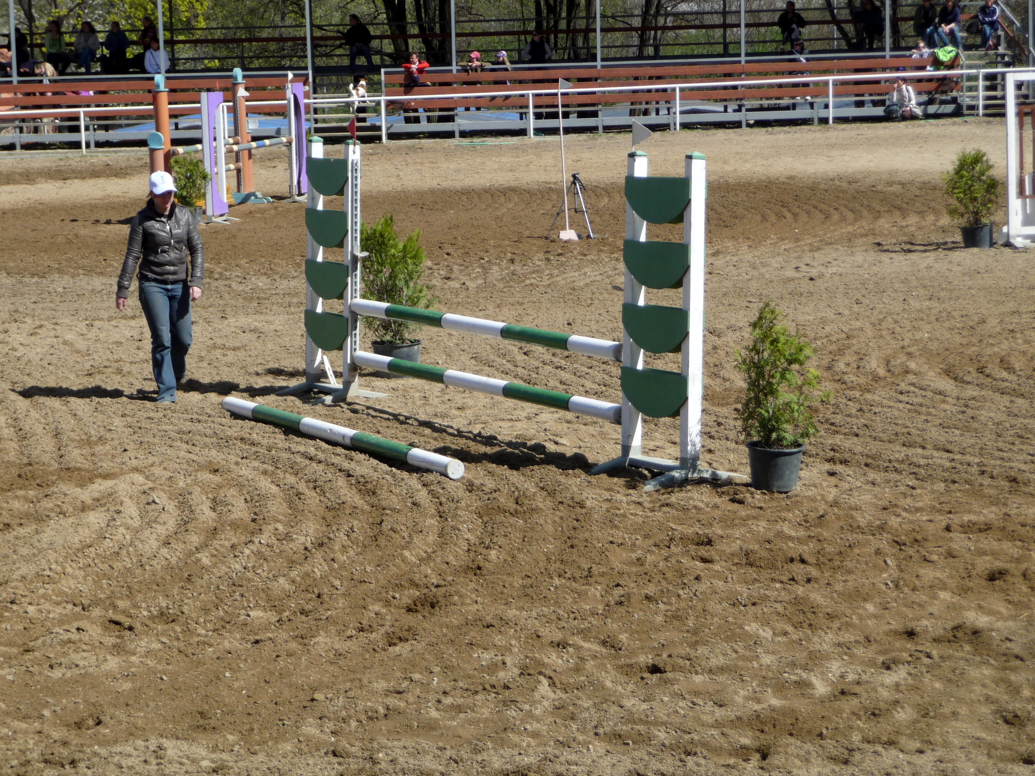 Show jumping Brno Veveří, class old L* -10-5-3-2◄►+2+3+5+10